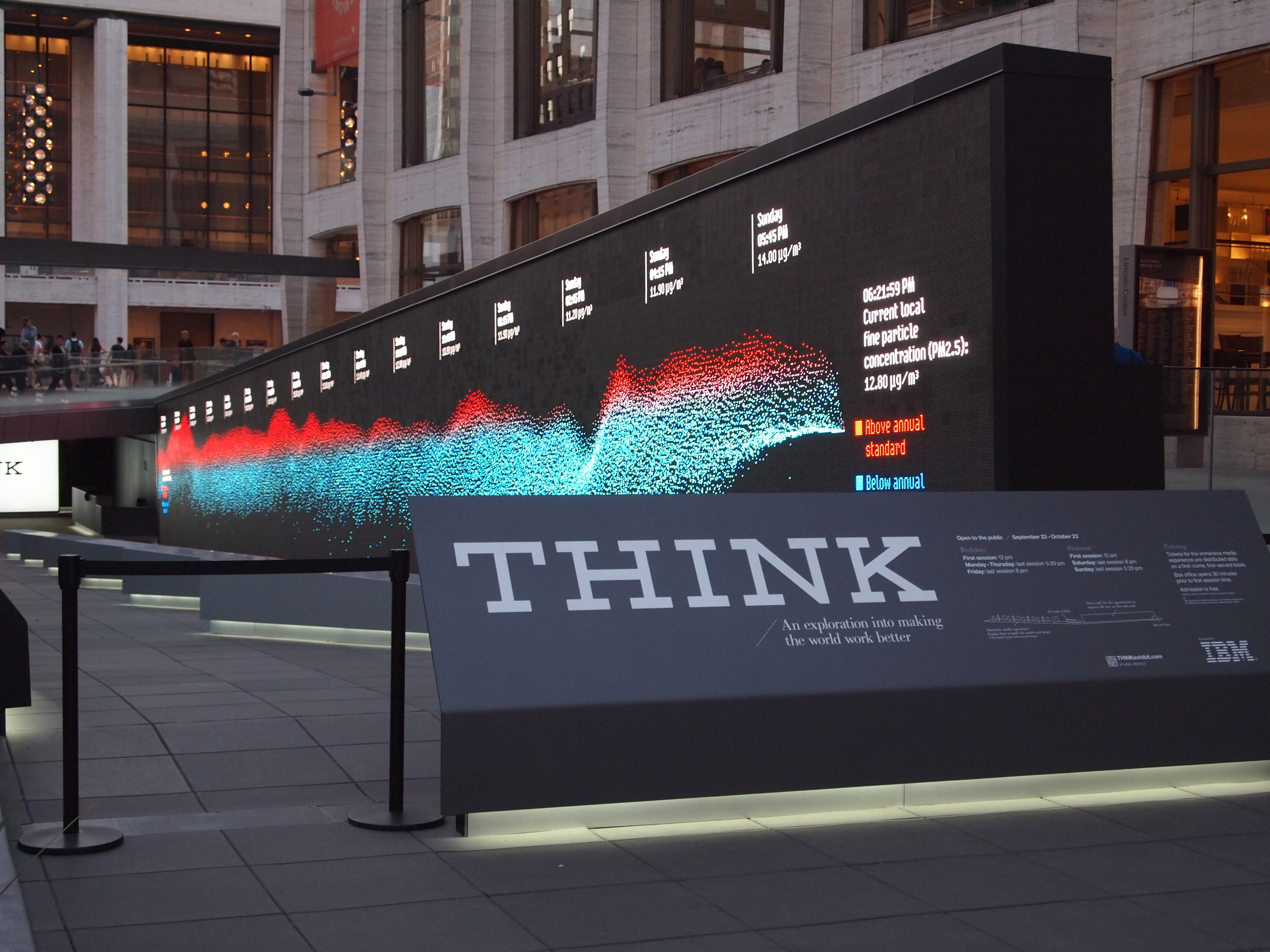 Think sign at IBM exhibit in Lincoln Center, New York.